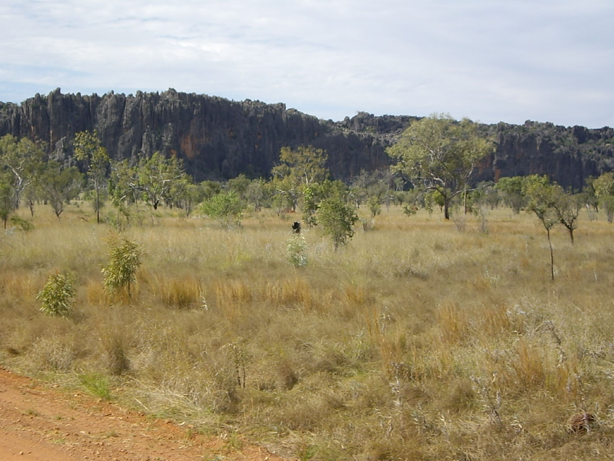 This is a photograph of the Windjana Gorge